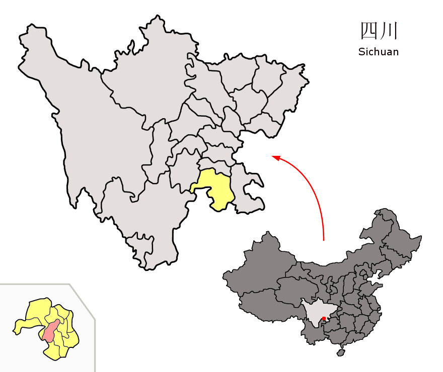 Location of Gao County (pink) and Yibin Prefecture (yellow) within Sichuan province of China Map drawn in october 2007 using various sources, mainly : Sichuan province administrative regions GIS data: 1:1M, County level, 1990 Sichuan Counties map from